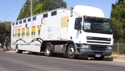 WRLC's mobile library